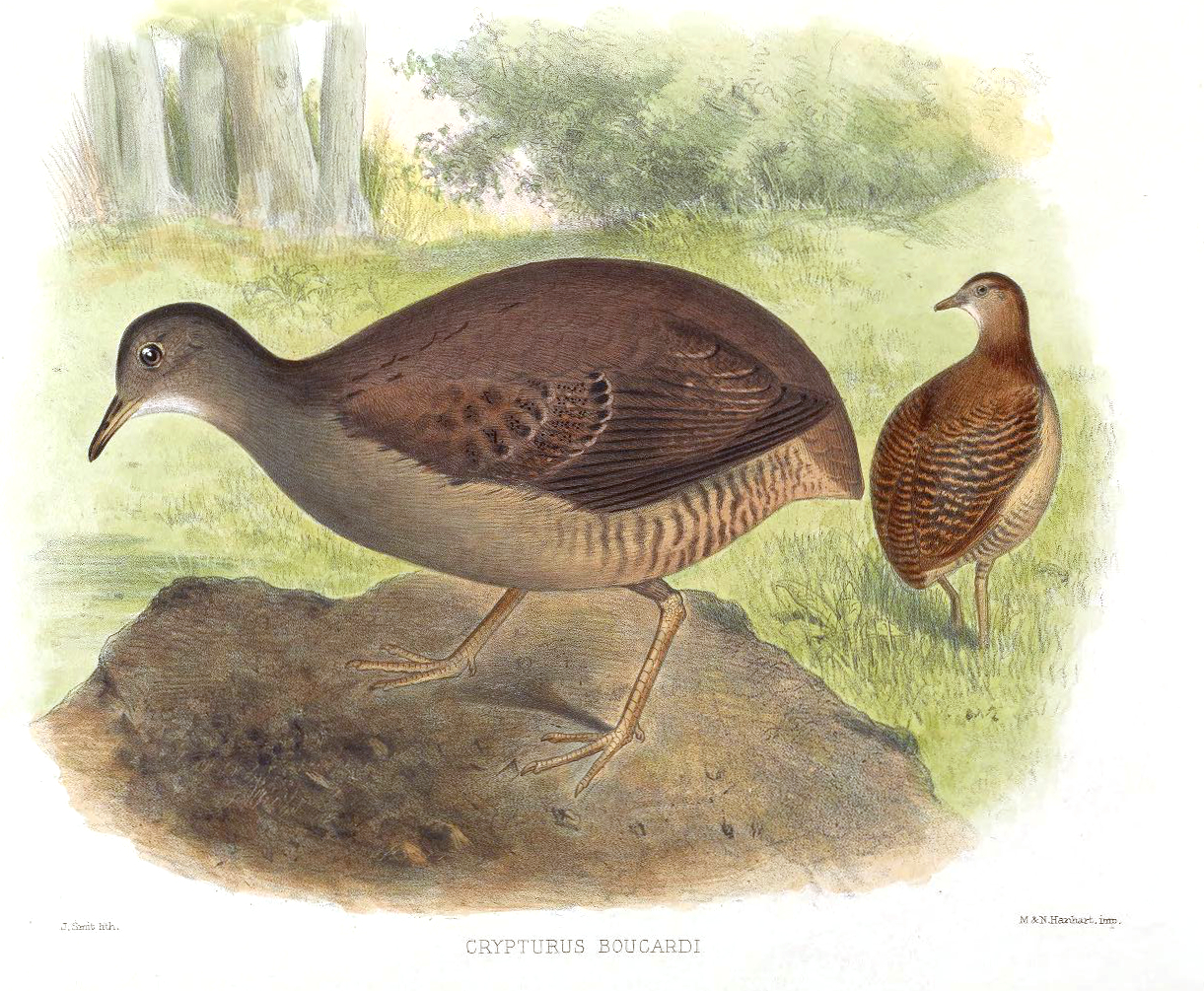 Crypturus boucardi= Crypturellus boucardi